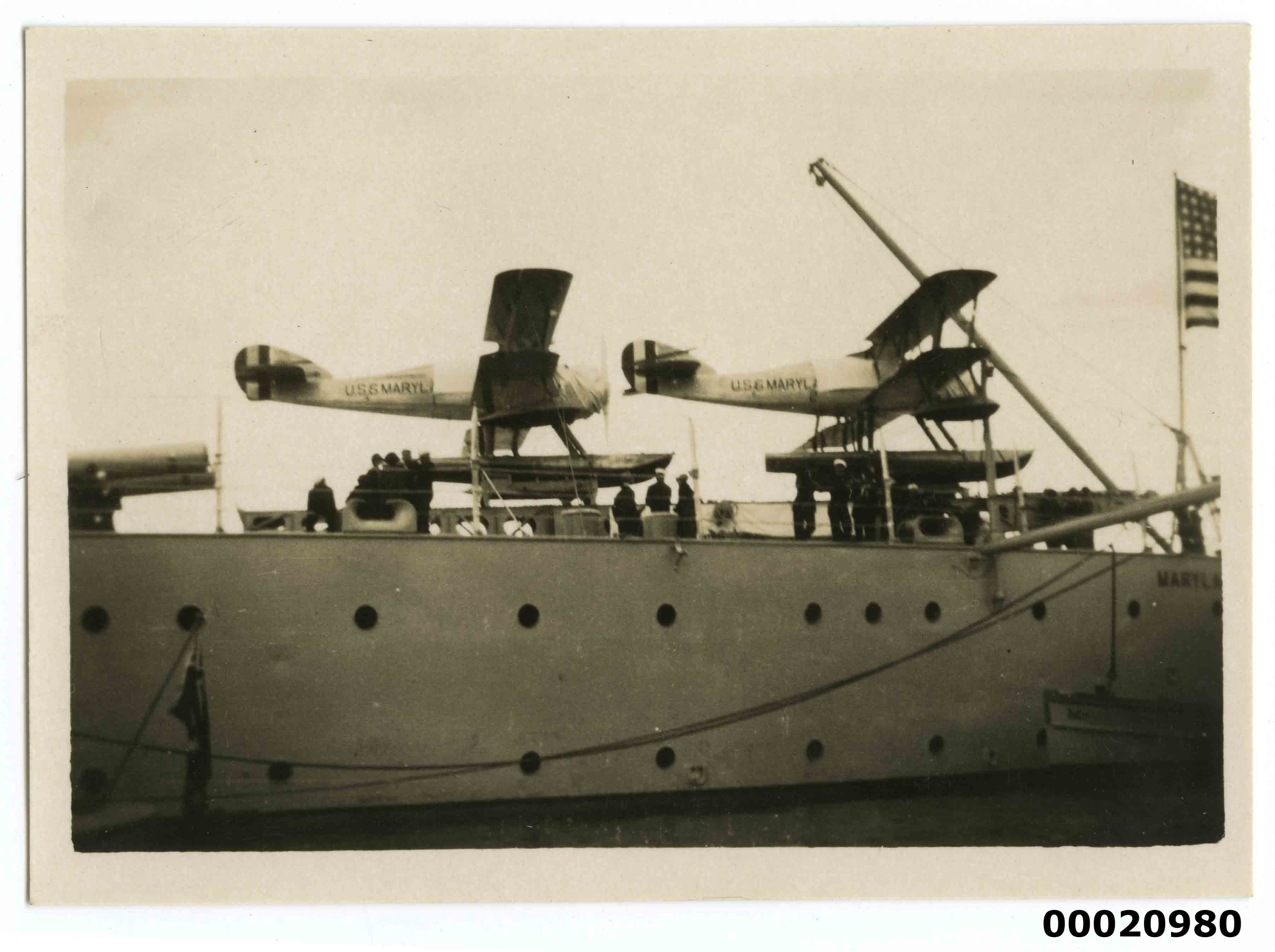 Images shows two seaplanes on USS MARYLAND (III), a Colorado class battleship. On 23 July 1925, the United States Navy visited Sydney. The fleet departed for New Zealand on 6 August. The fleet included USS CALIFORNIA (V), USS COLORADO (III), USS TENNESSEE (III), USS MARYLAND (III), USS WEST VIRGINIA (II), USS NEW MEXICO (I), USS MISSISSIPPI (III) and USS IDAHO (IV). This photo is part of the Australian National Maritime Museum’s Samuel J. Hood Studio collection. Sam Hood (1872-1953) was a Sydney photographer with a passion for ships. His 60-year career spanned the romantic age of sail and two world wars. The photos in the collection were taken mainly in Sydney and Newcastle during the first half of the 20th century. The ANMM undertakes research and accepts public comments that enhance the information we hold about images in our collection. This record has been updated accordingly. Photographer: Samuel J. Hood Studio Collection Object no. 00020980